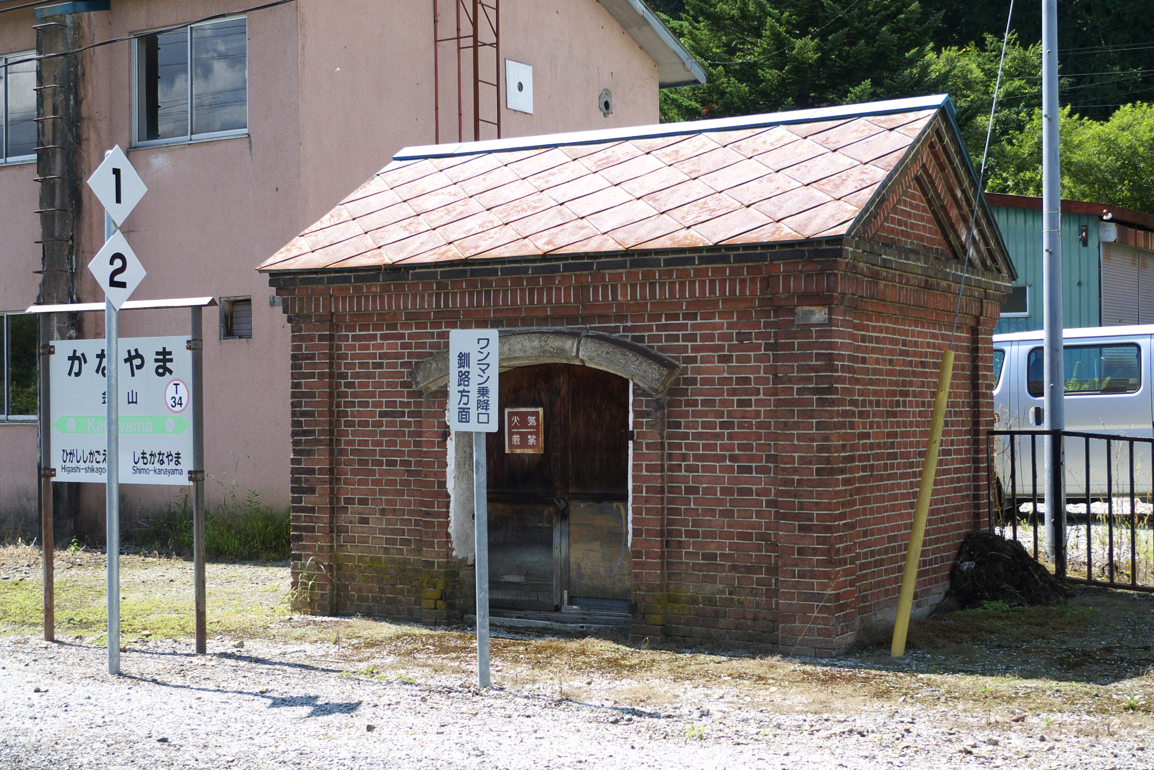 Brick-built warehouse for dangerous goods on the platform at Kanayama Station on the JR Hokkaido Nemuro Main Line in Minamifurano Town, Hokkaido, Japan